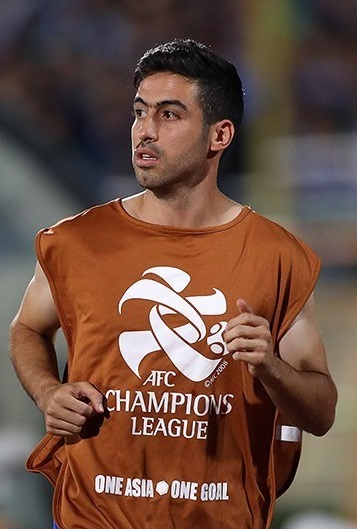 Khosro Heydari